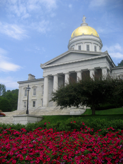 Grounds of the vermont State House, Montpelier, Vermont, looking northwest.